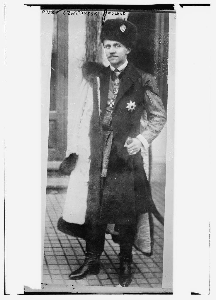 Adam Ludwik Czartoryski circa 1915